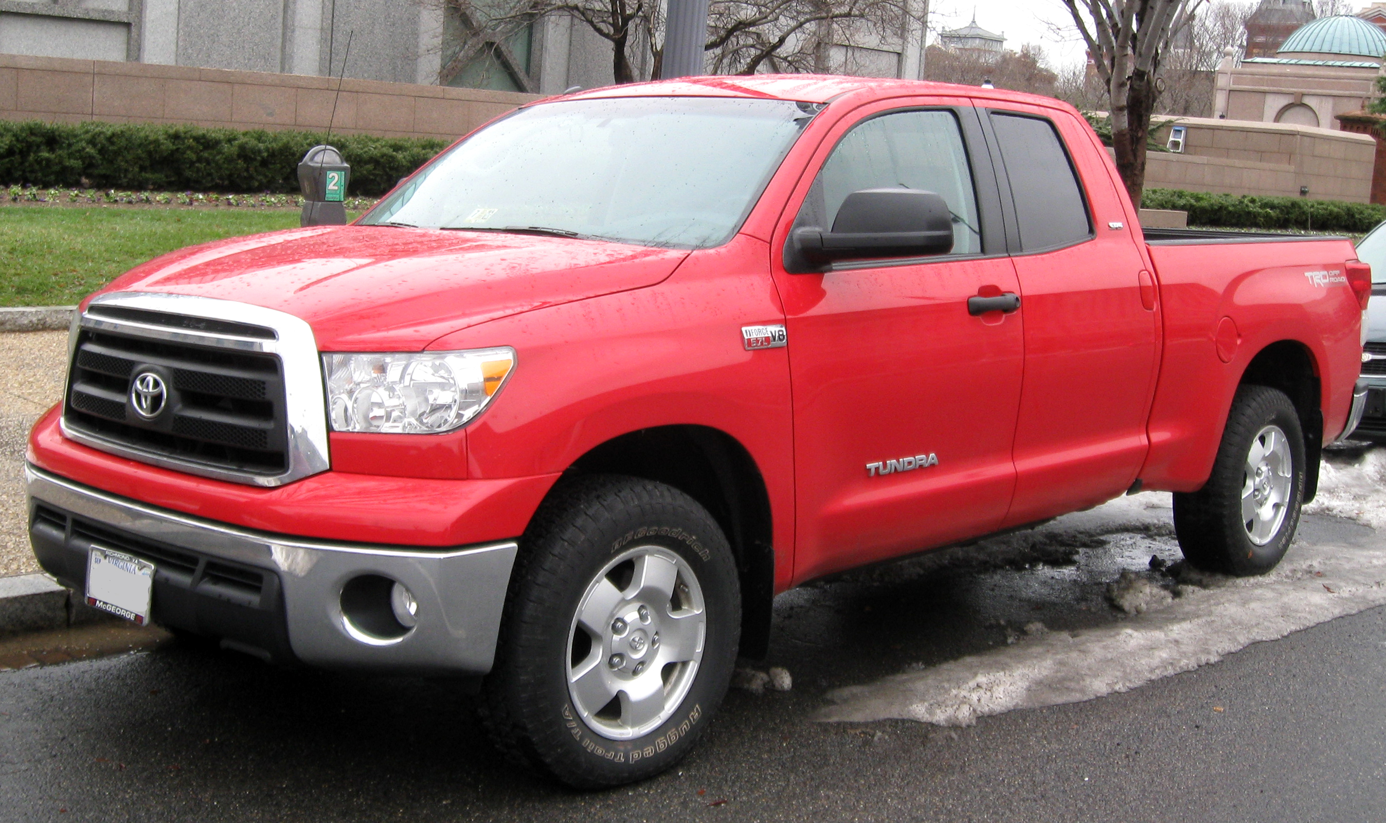 2010 Toyota Tundra photographed in Washington, D.C., USA.